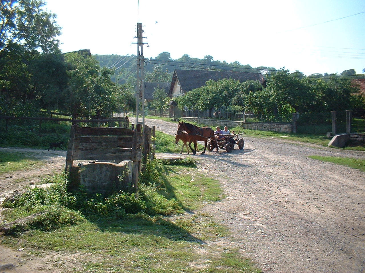 Countryside: Bicalatu (Magyarbical) - summer 2003 in Transsylvania